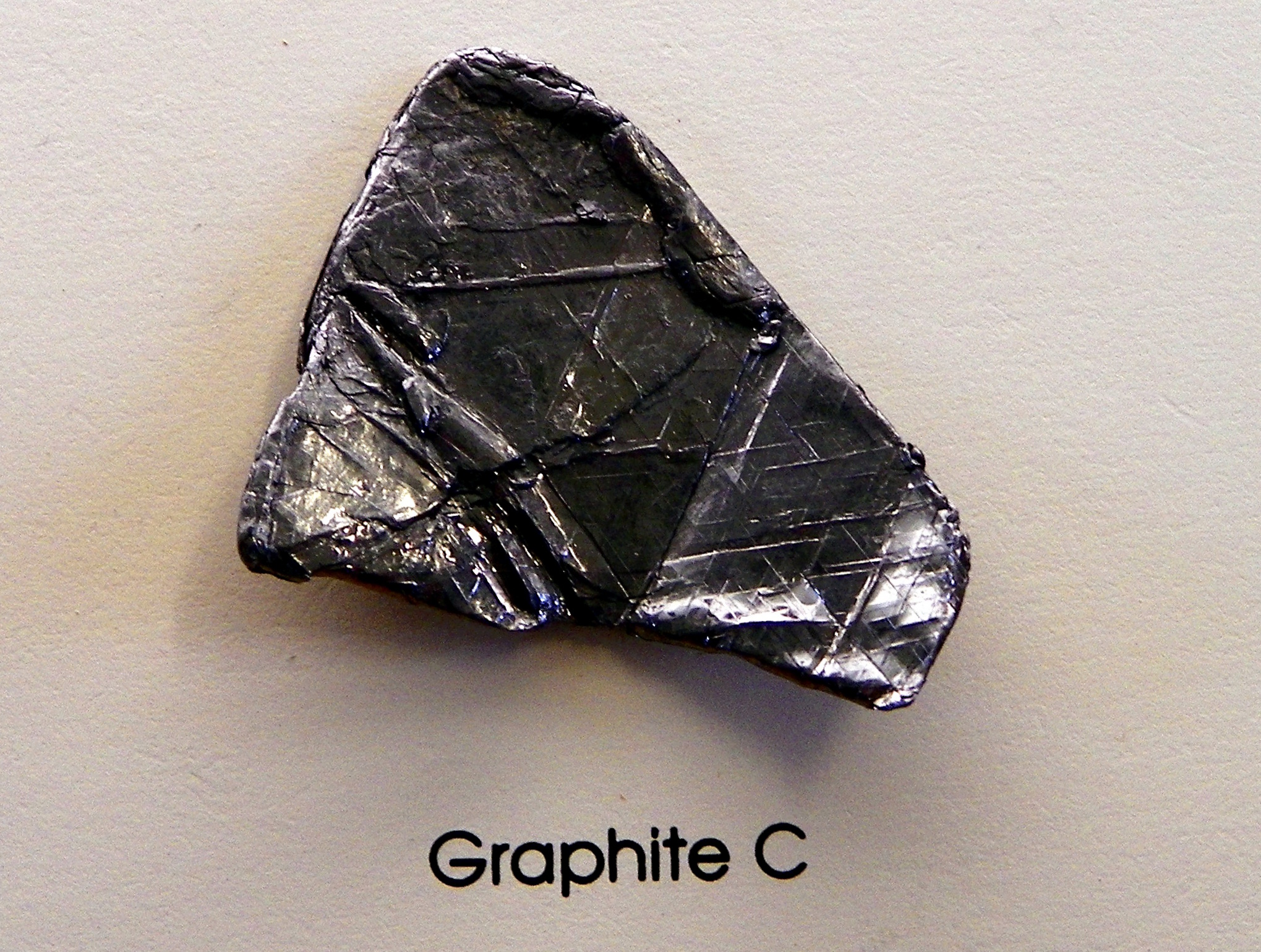 Graphite